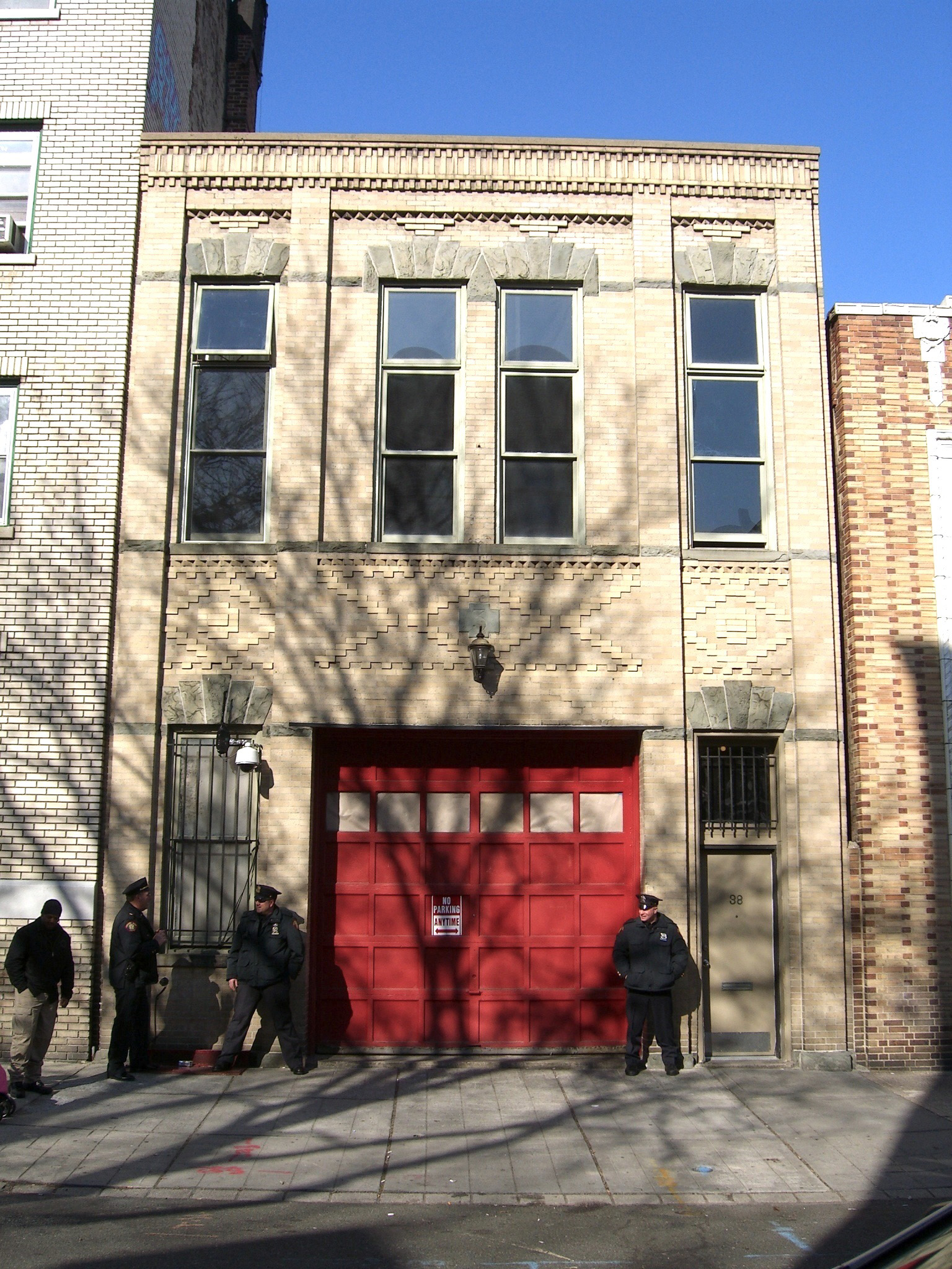 Former firehouse at 38 Mercer Street between Grove Street and Barrow Street in Jersey City, New Jersey. The building serves as the first season residence for the cast of the MTV reality television series Snooki and JWoww vs. The World. In the photo, taken February 28, 2012, three days after stars Nicole "Snooki" Polizzi and Jennifer "JWoww" Farley moved into the residence, are a member of the production staff (left), and a group of Jersey City police officers, whose round-the-clock presence the production was required to pay for in order to receive a filming permit by Jersey City. This photo was created by Luigi Novi. It is not in the public domain, and use of this file outside of the licensing terms is a copyright violation.